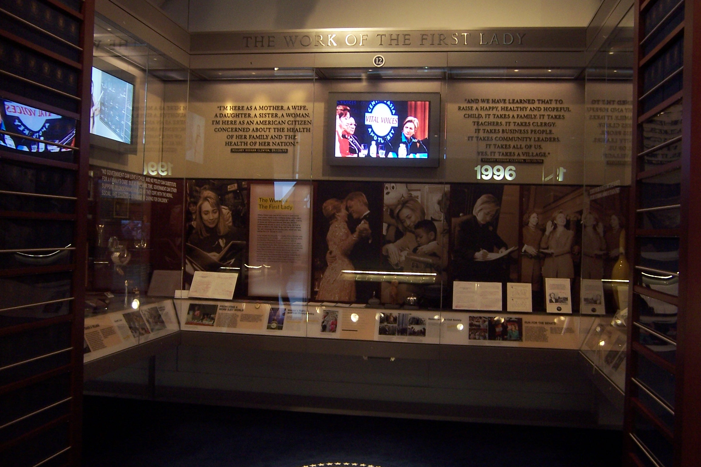 Exhibit portraying Hillary Rodham Clinton's time as First Lady of the United States, at Clinton Presidential Center in Little Rock, Arkansas